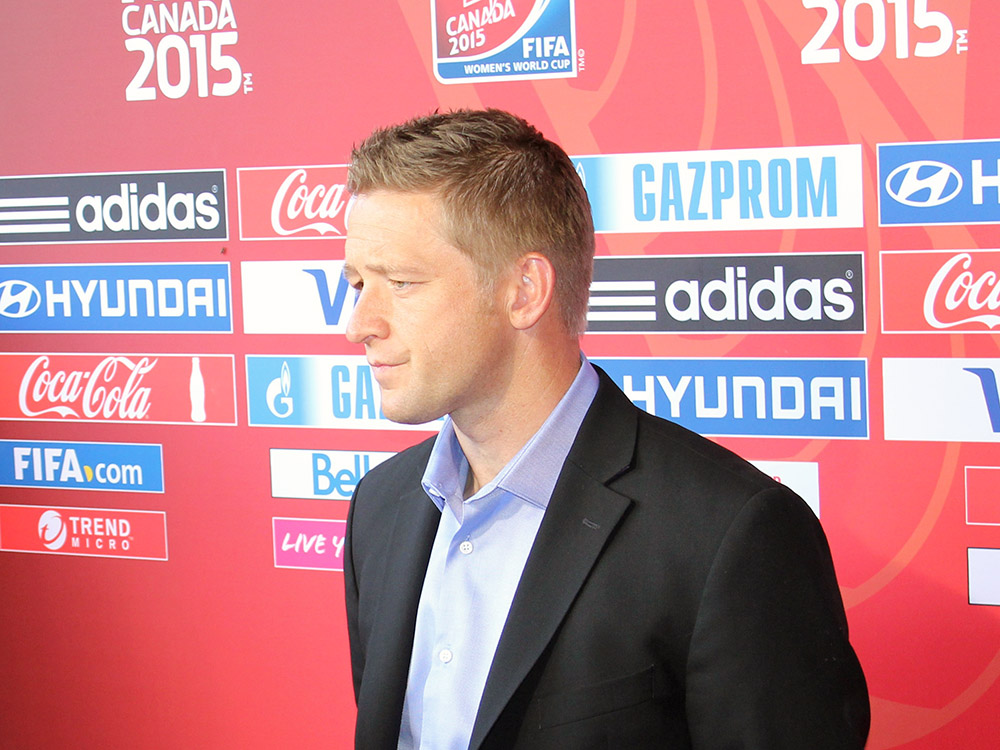 New Zealand coach Tony Readings is interviewed after a match at the 2015 FIFA Women's World Cup in Canada.